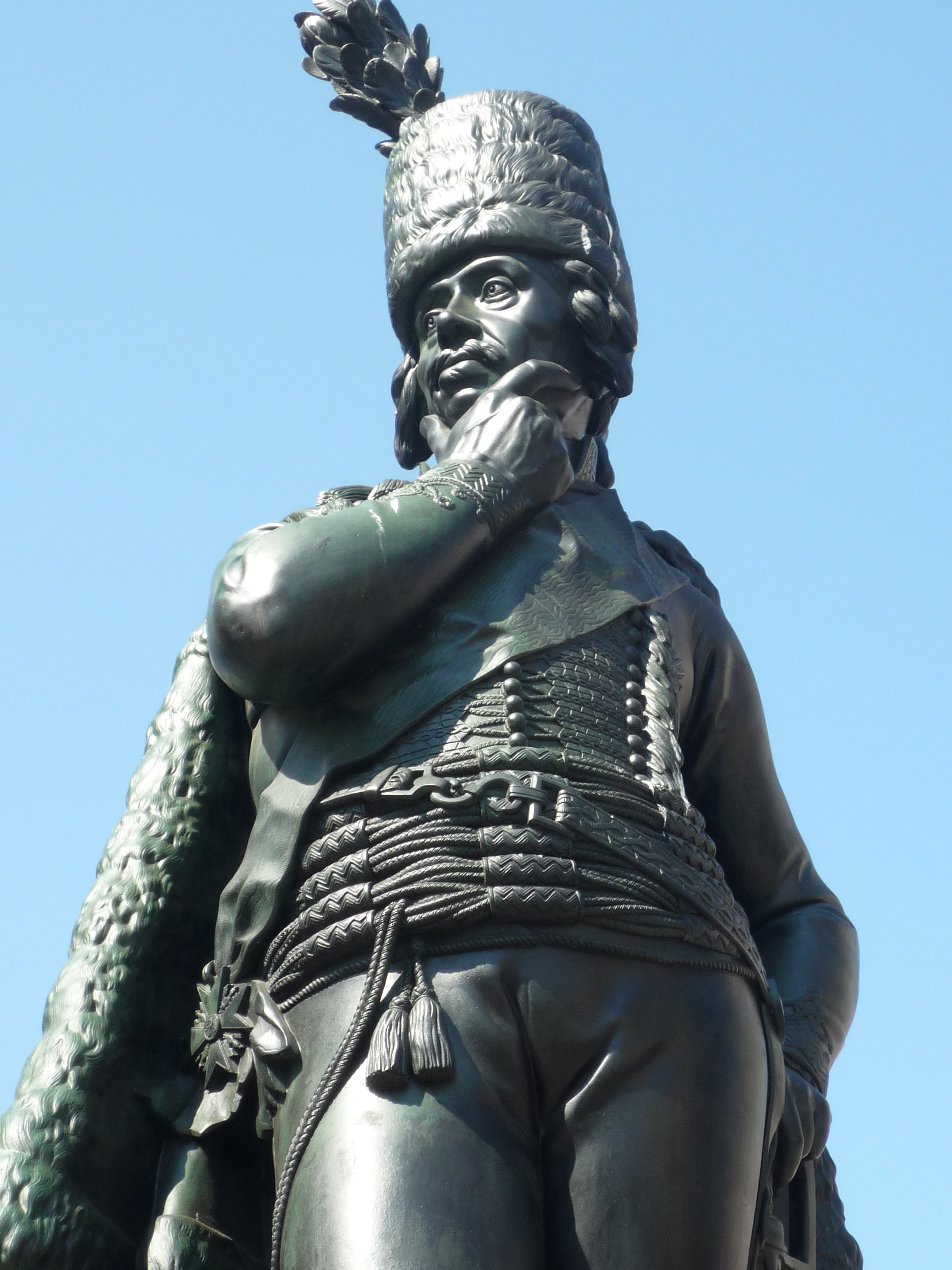 Memorial for the prussian general Hans Joachim von Zieten (1699-1786). Originally a marble statue, made by Johann Gottfried Schadow and placed at the former Wilhelmplatz in Berlin in 1794. Replaced by a reproduction, made of bronze, by August Kiss in 1857. Re-erected in 2003.